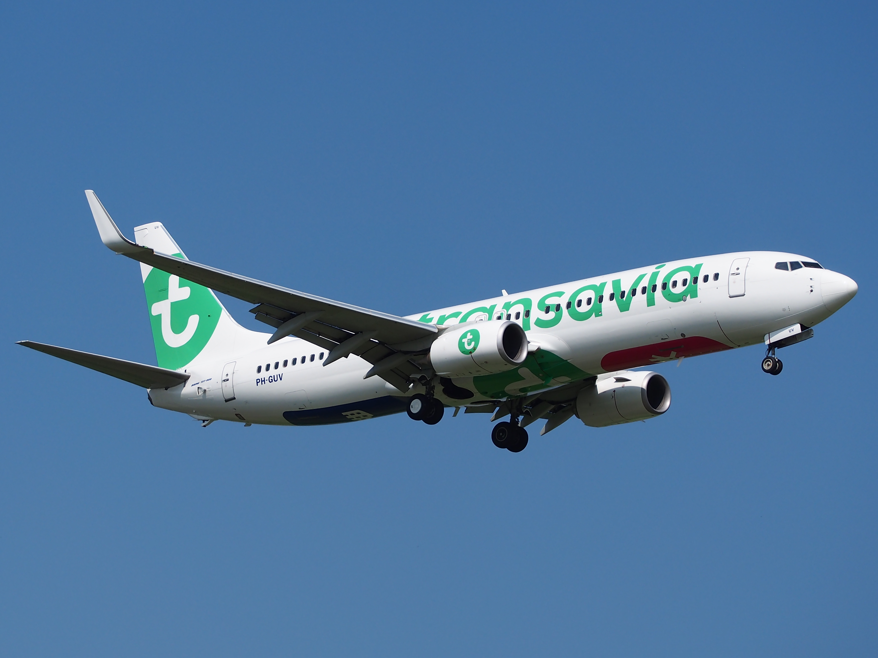 Photographed in Amsterdam.